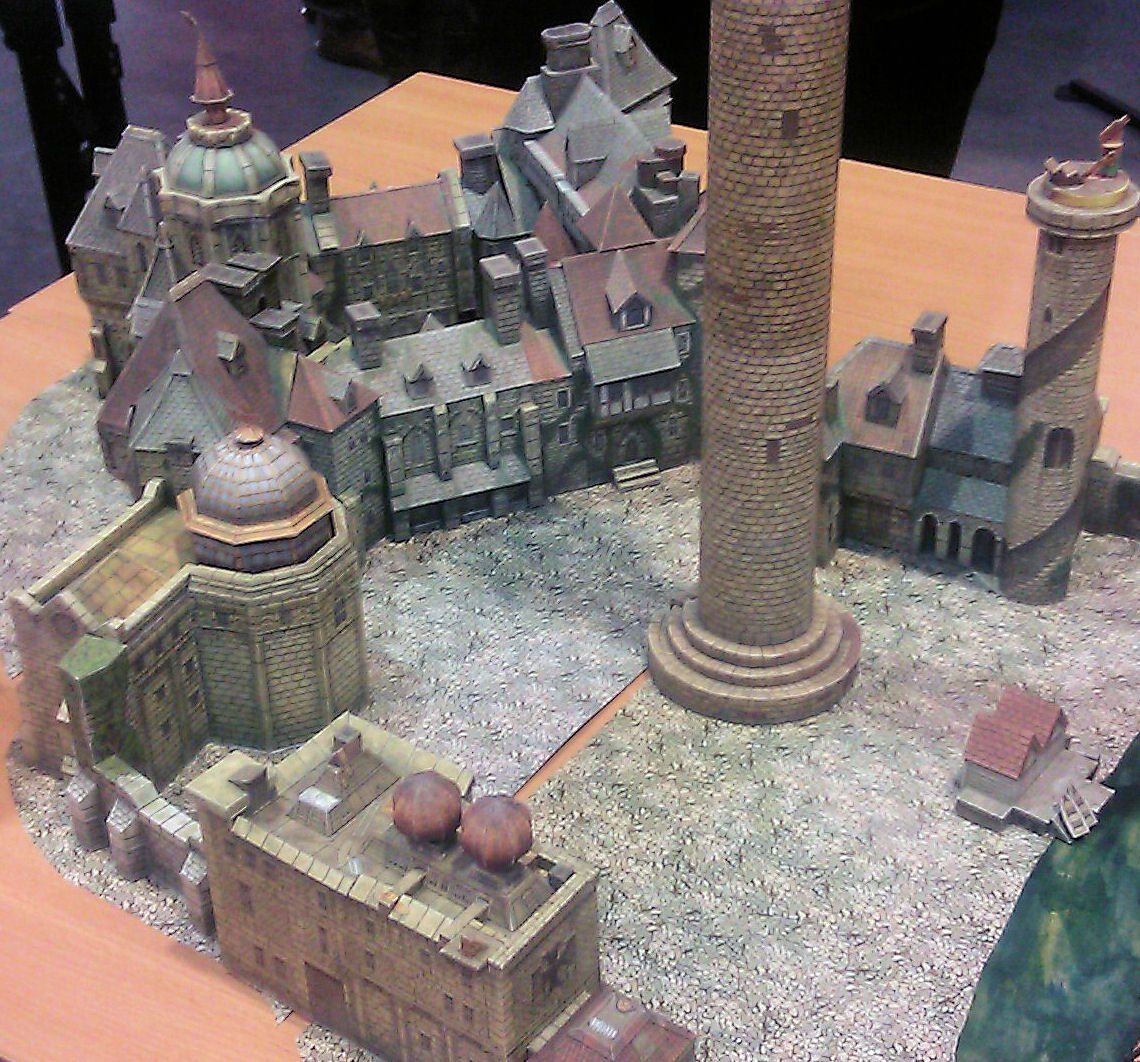 The Unseen University, Pyrkon 2013, Poznań, Poland